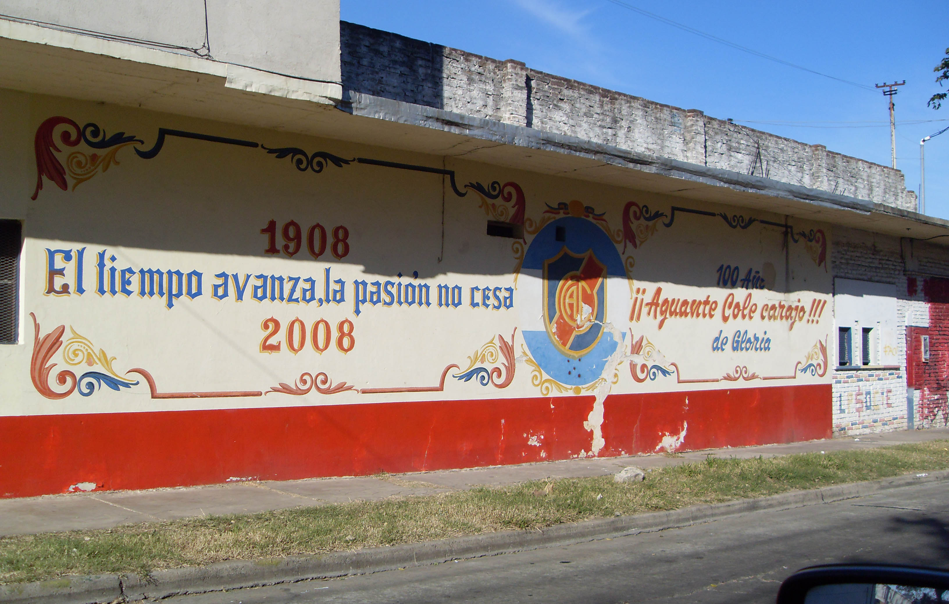 Mural on Club Atlético Colegiales, on Malaver street, Florida Oeste, Buenos Aires, Argentina.